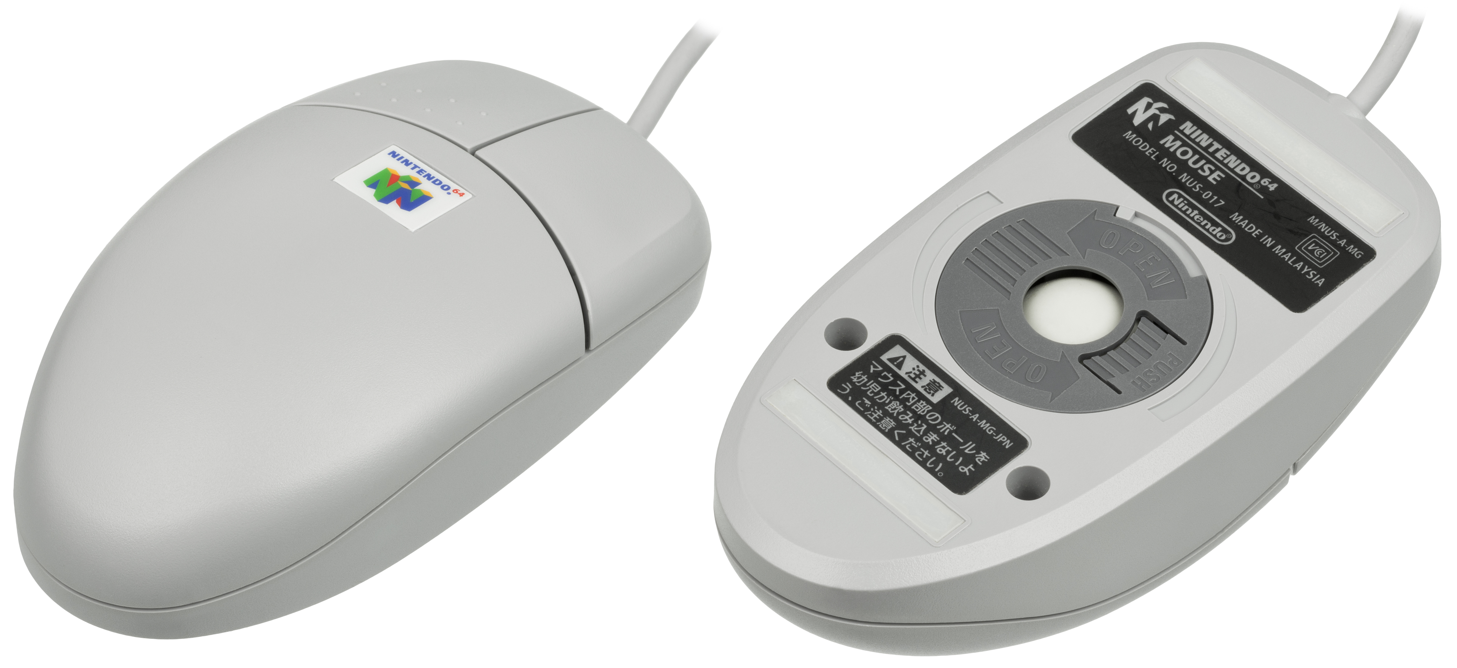 The top and bottom of the official mouse for the Nintendo 64 video game console. Only sold in Japan and bundled with the 64DD game Mario Artist: Paint Studio, this rare peripheral is a just a standard ball-type mouse.